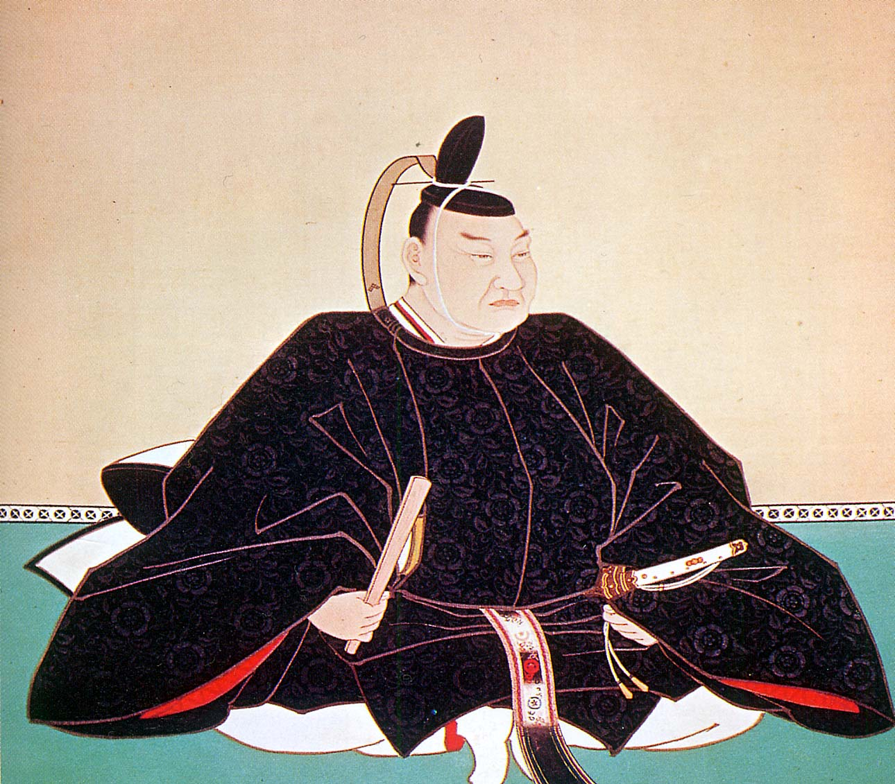 Croppped version of File:Ii Naosuke.jpg